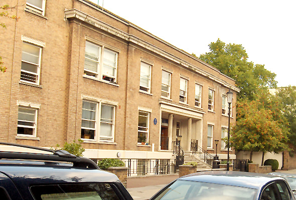 Richmond American University in London, main Kensington campus, 2006